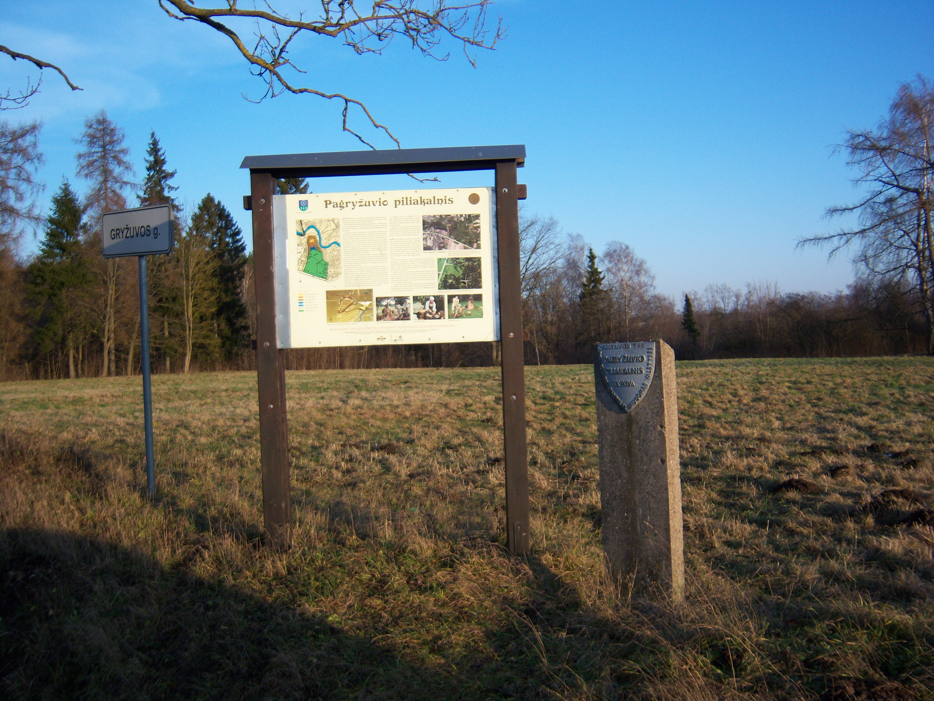 Pagryžuvys Hilfort, Kelmė District, Lithuania